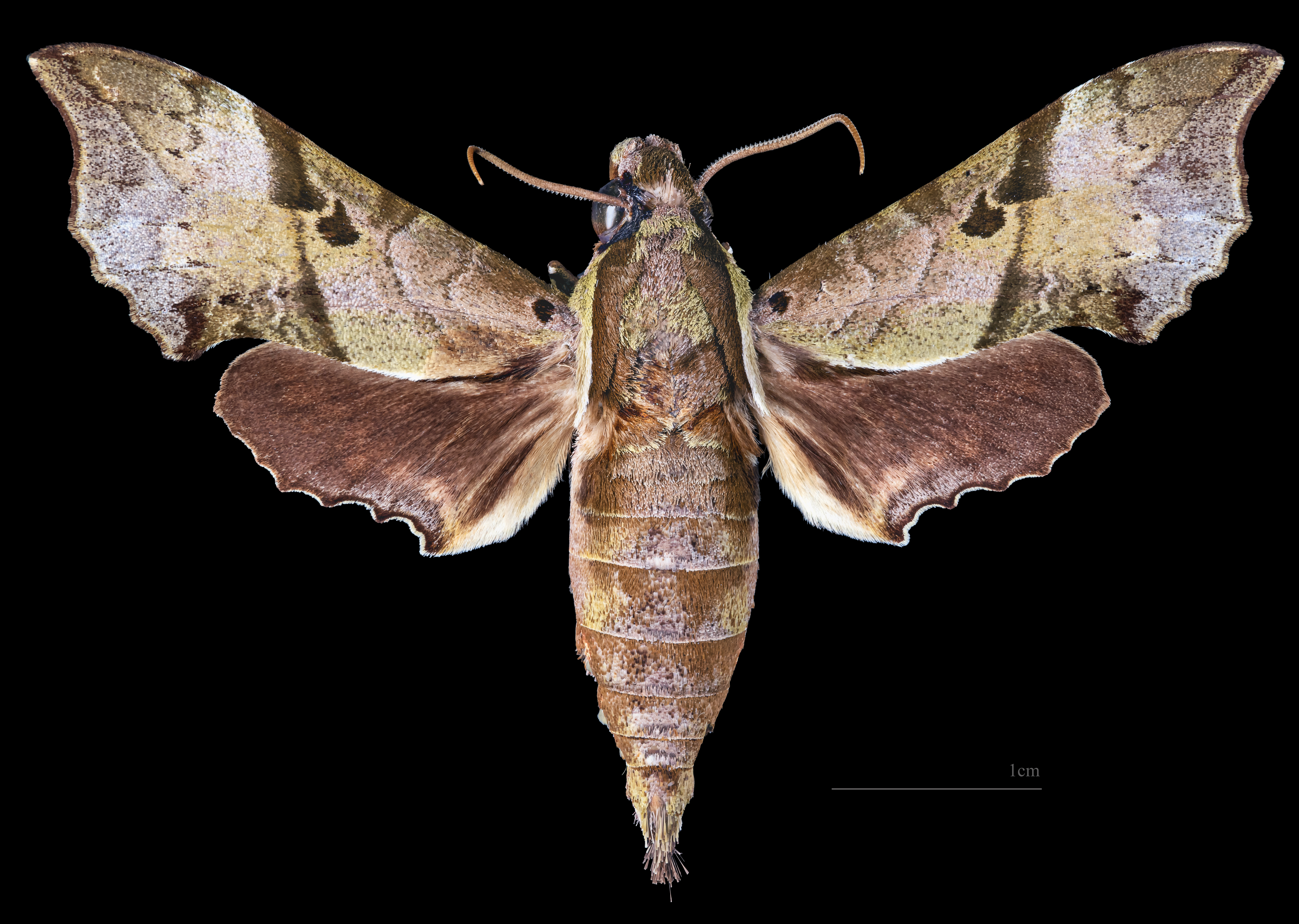 Enpinanga assamensis - △ Ventral side Collection of the Mathematician Laurent Schwartz